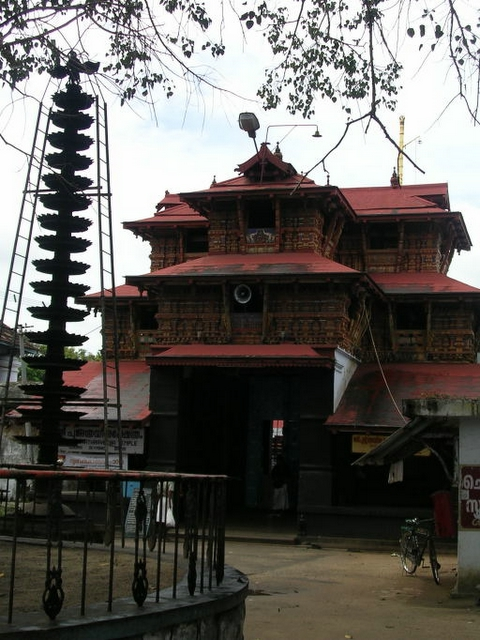 This is the Sri Poornathrayeesa Temple located at the Royal Town of Thripunithura which is the headquarters of Royal Family Of Cochin